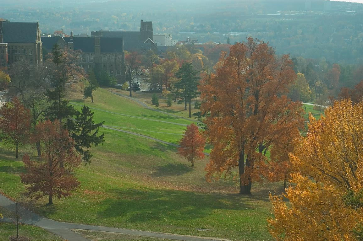 Autumn view of the Library Slope of Cornell University, showing the west ends of Willard Straight Hall, Anabel Taylor Hall, and Myron Taylor Hall, with South Hill and the towers of Ithaca College visible in the background.